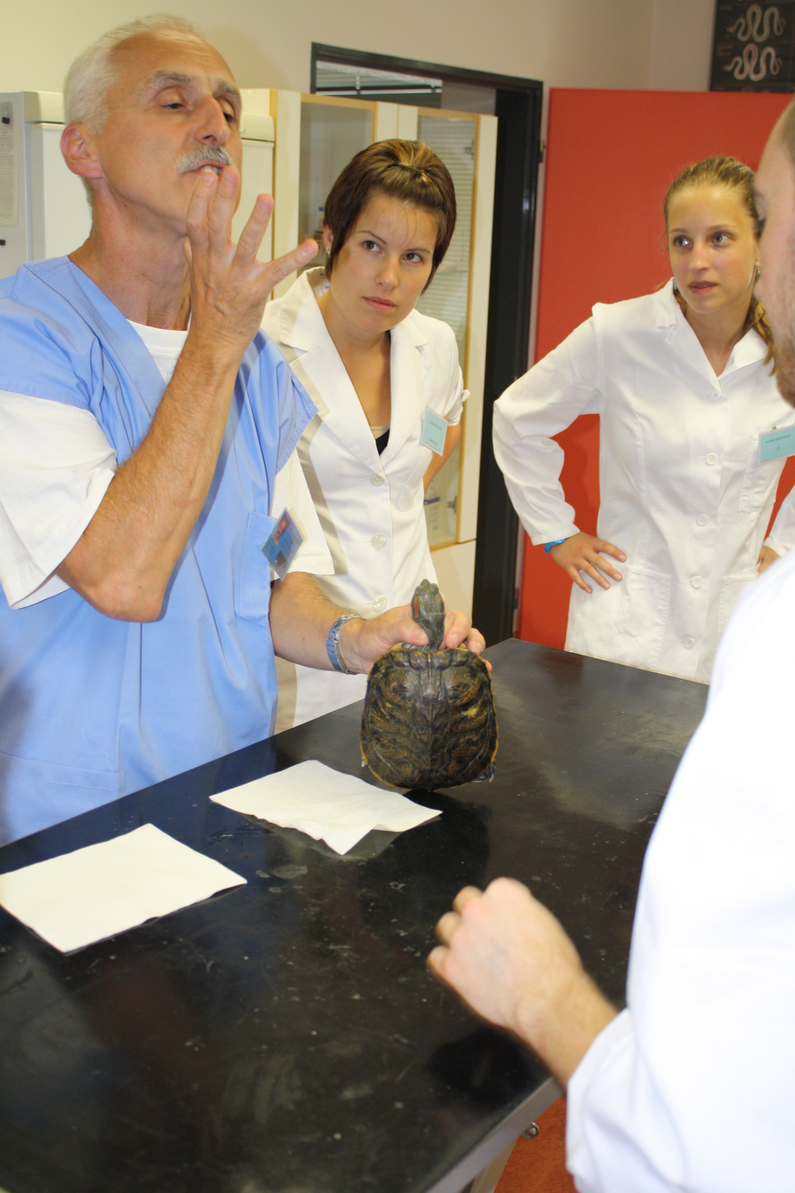 Výuka v oblasti exotické medicíny